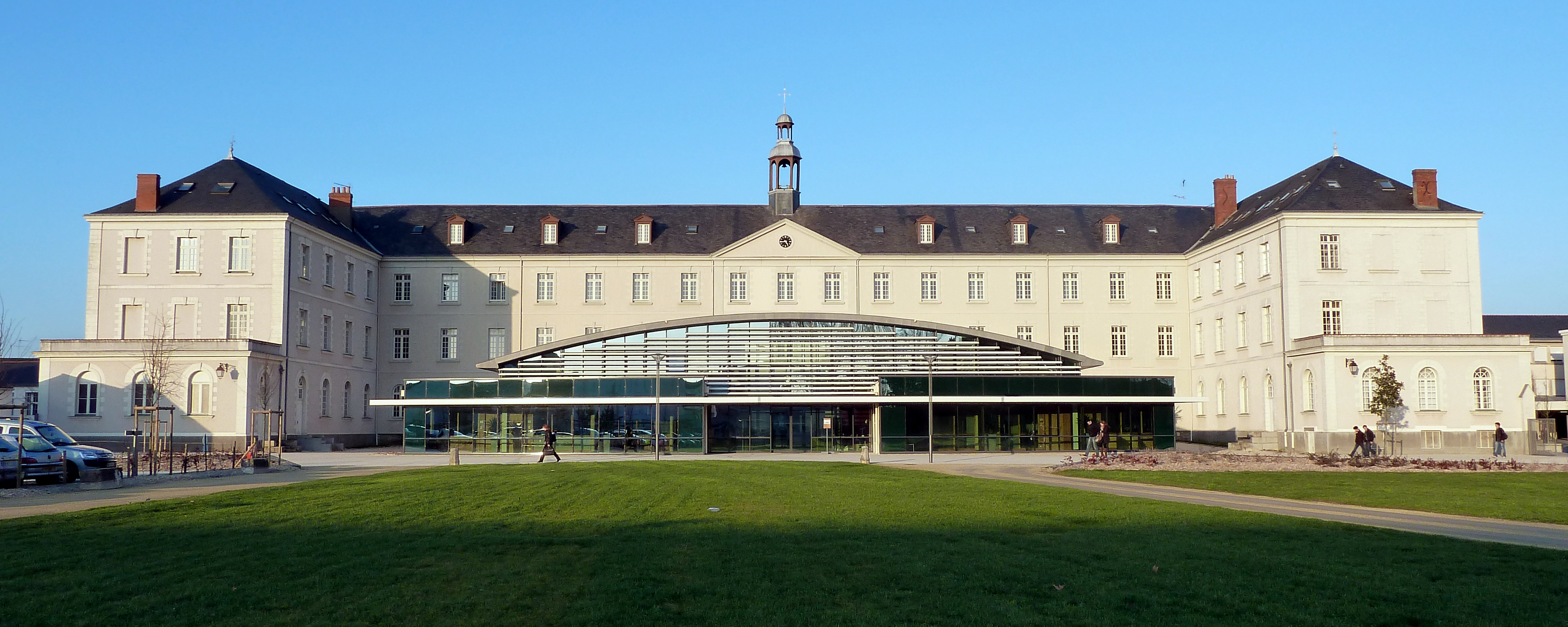 Mongazon Institution, a 19th century building, 1 rue du Colombier (Dovecote Street) in Angers, Maine-et-Loire, Pays de la Loire, France.